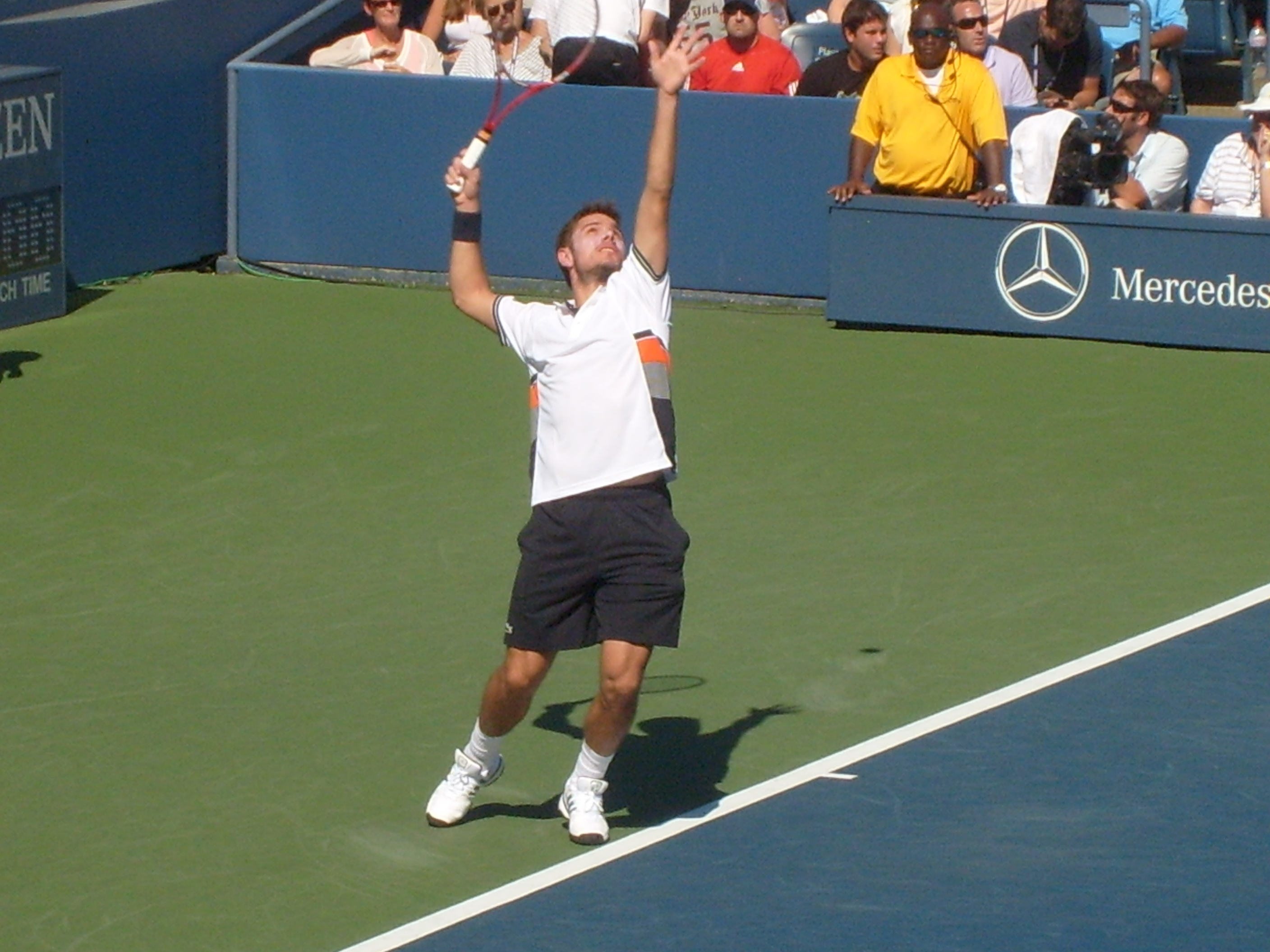 Stanislas Wawrinka serves during his upset win versus Andy Murray at the 2010 US Open.